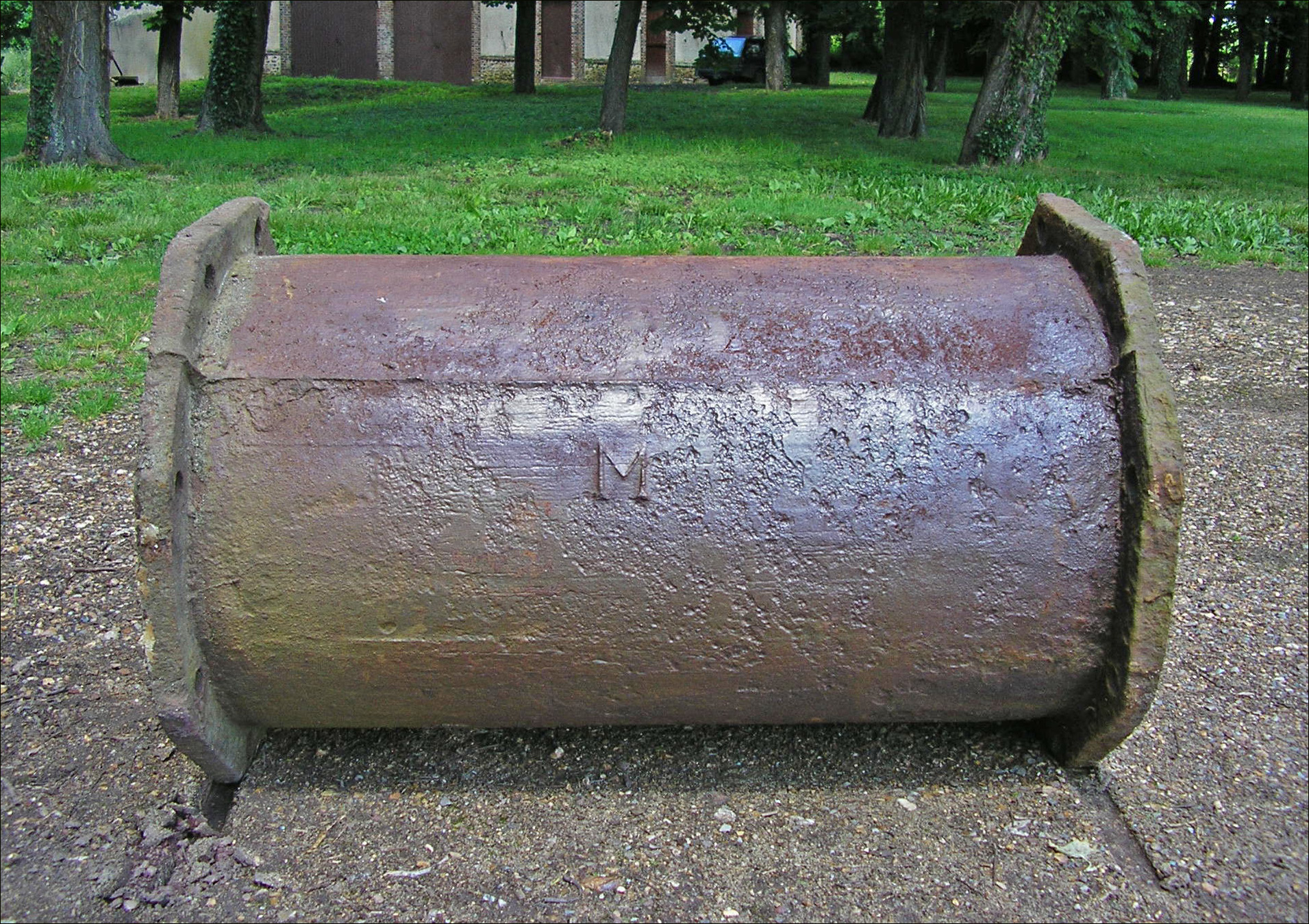 Marly Machines. Pipe element from the Forges of Dampierre.